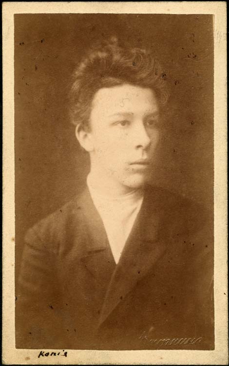 Aleksandr Ulyanov Mugshot - 1887 - Must Fall Under Public Domain